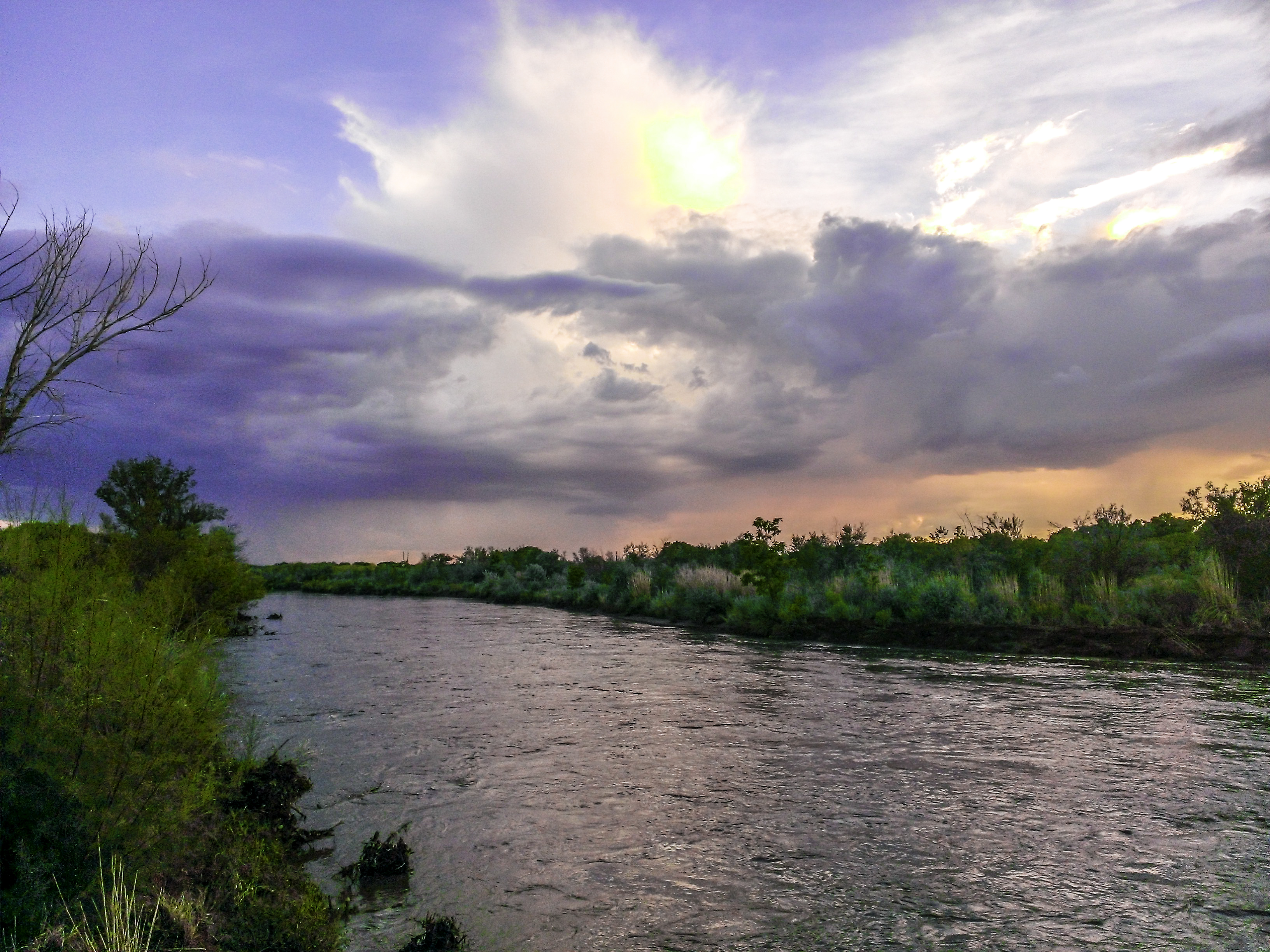 Island within the Rio Grande from the North Valley in Albuquerque, New Mexico.